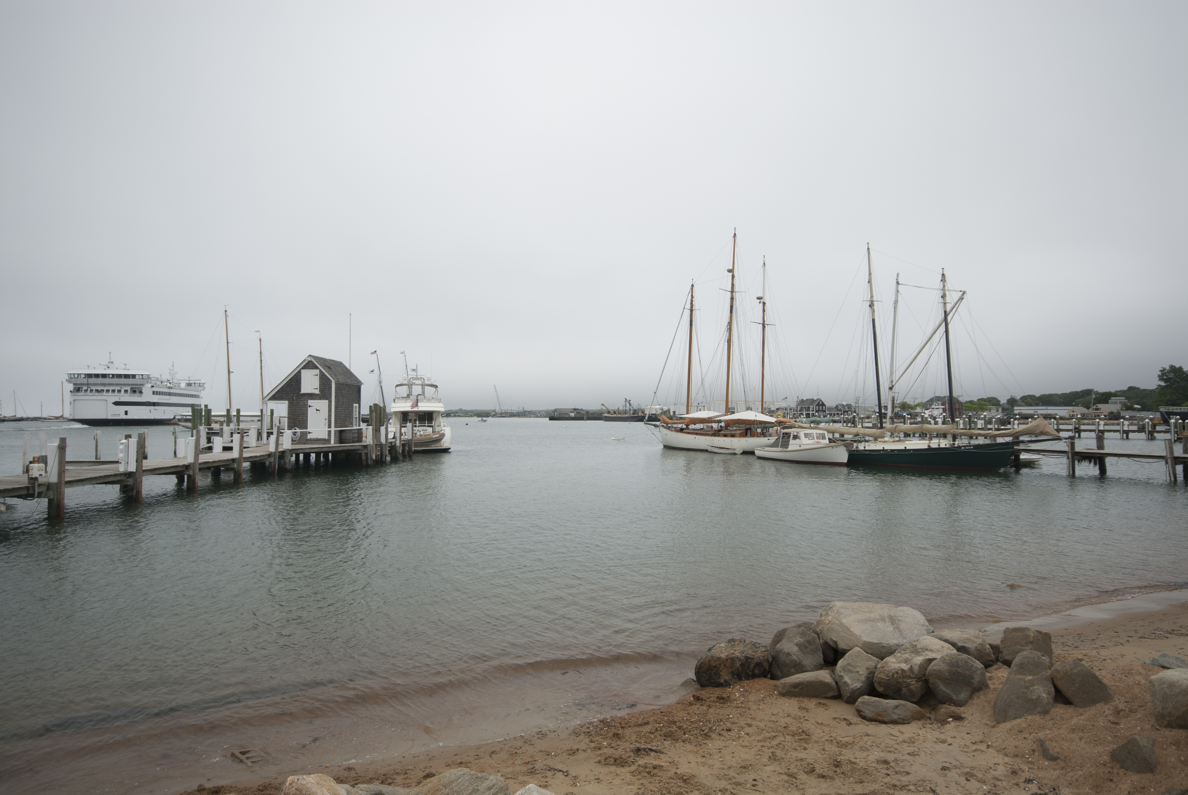 Vineyard Haven Harbor, Tisbury, Massachusetts